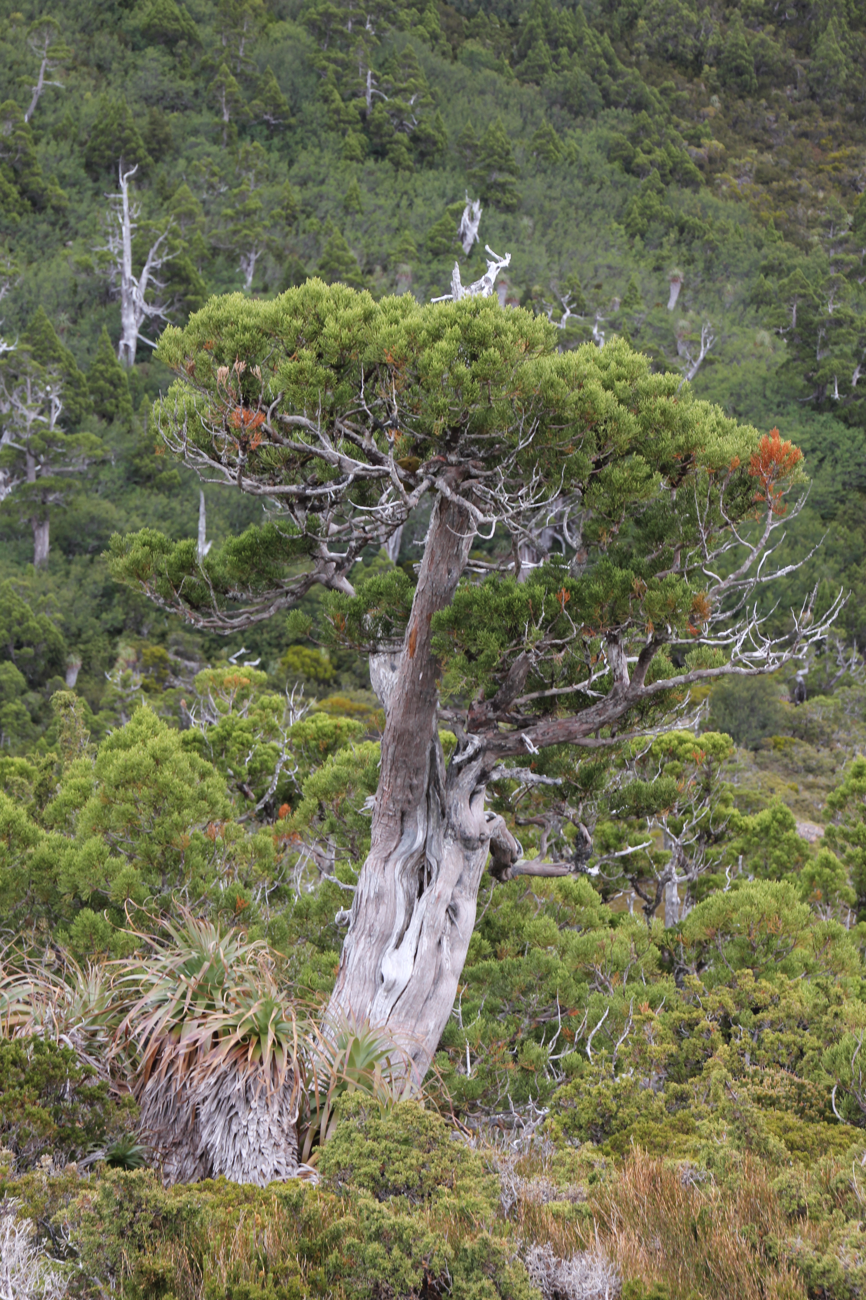 Athrotaxis cupressoides copse alpine tarn